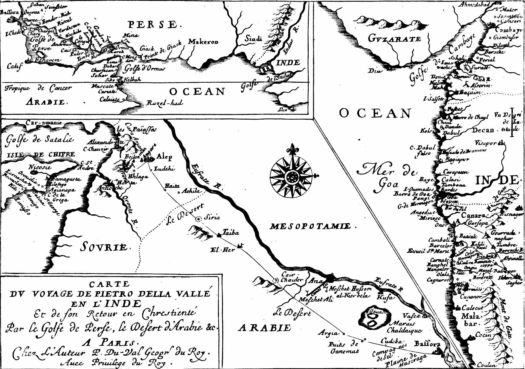 Travels of Pietro della Valle-1